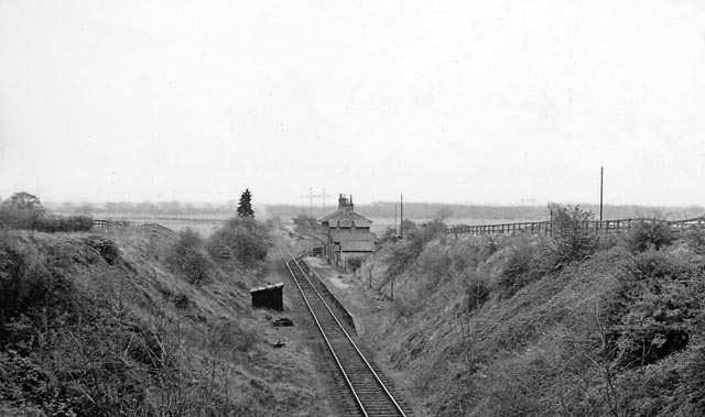 Brafferton Station (remains). Near to Brafferton, North Yorkshire, Great Britain. View NE, towards Pilmoor; ex-NER Pilmoor - Knaresborough branch. Station closed when branch passenger service withdrawn on 25/9/50, the line from Pilmoor being abandoned, but it remained open to Knaresborough for goods until 5/10/64.